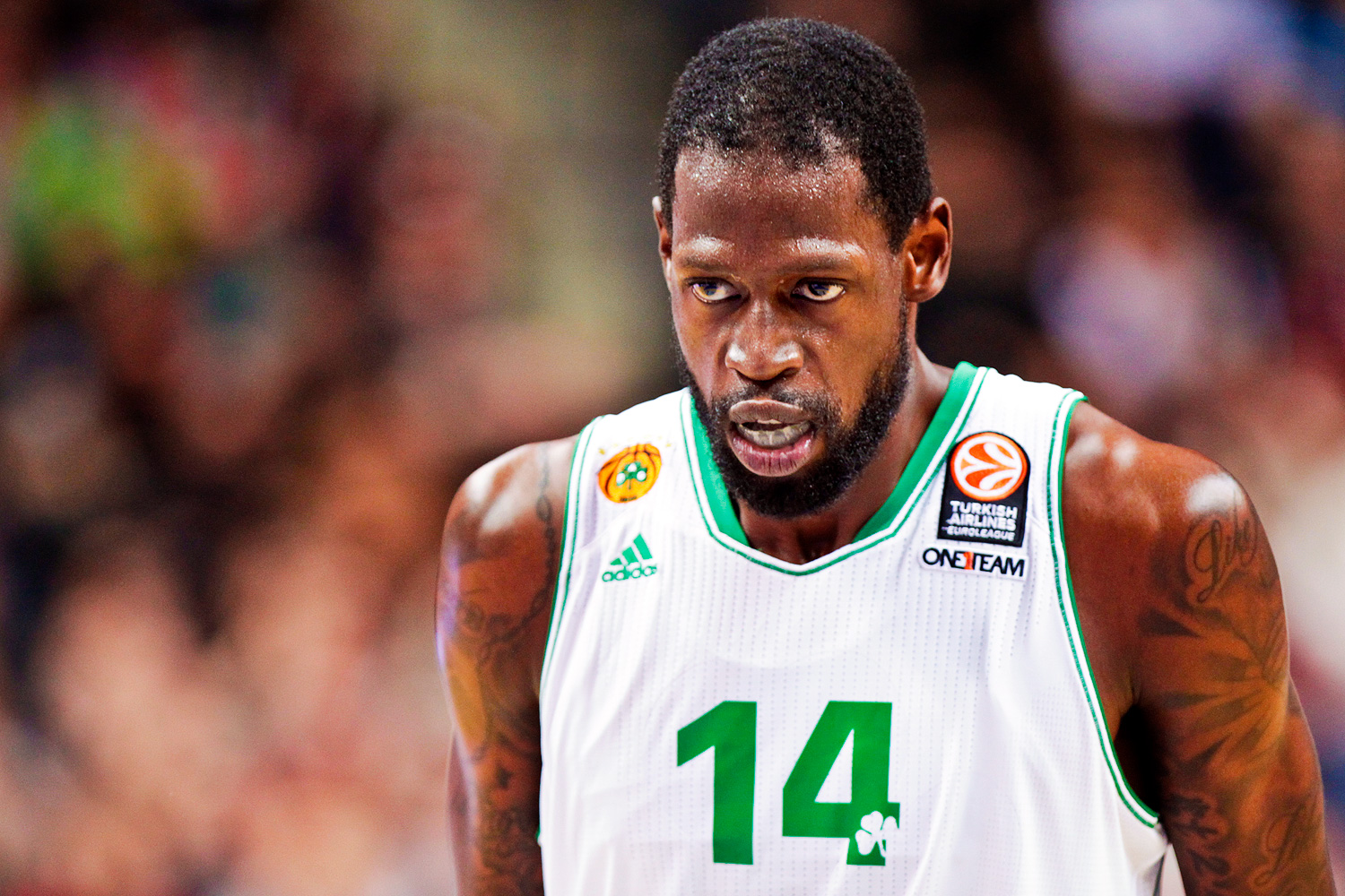 Basketball player James Gist